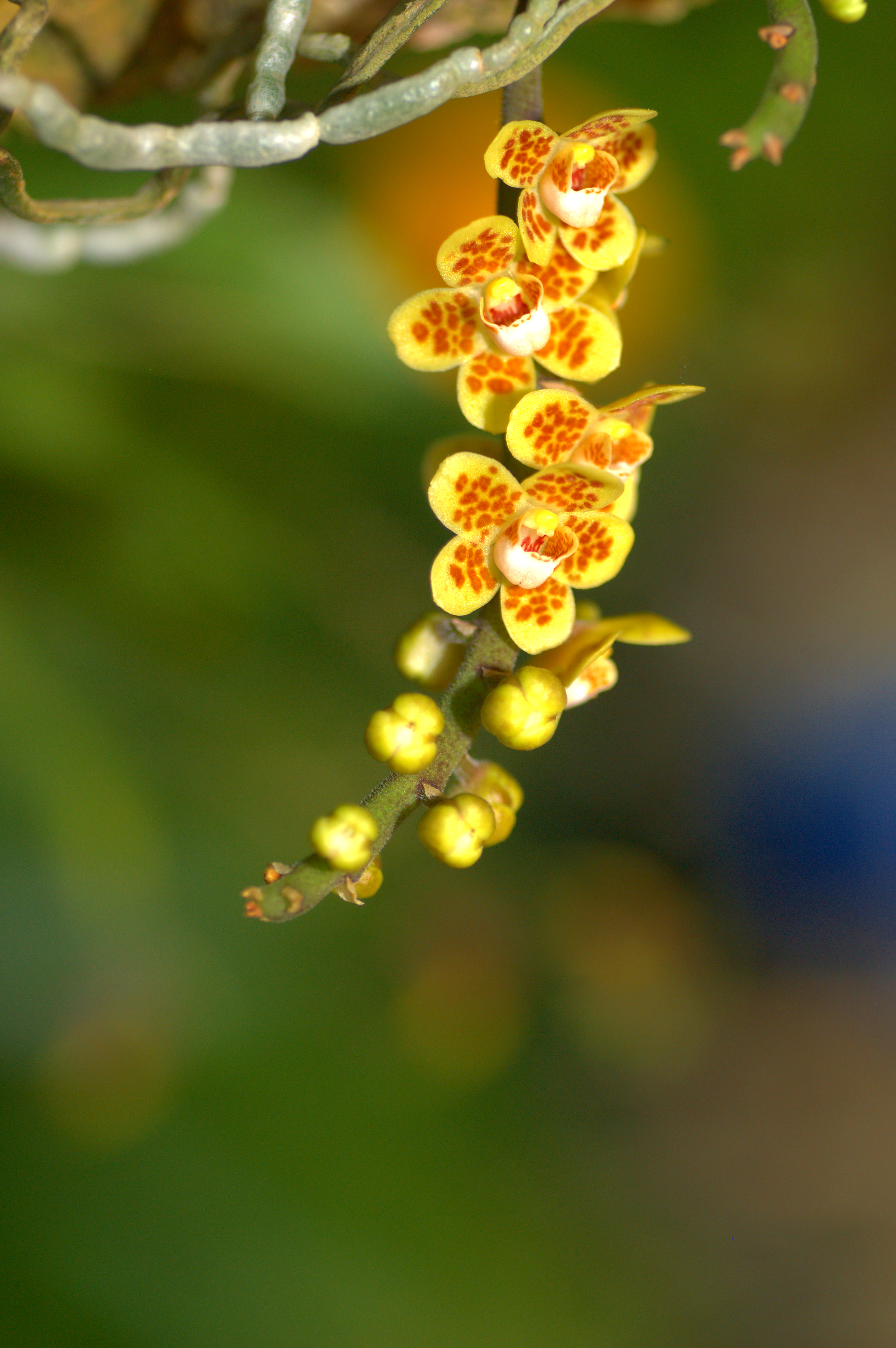 Chiloschista lunifera at the Pacific Orchid Exposition 2010.